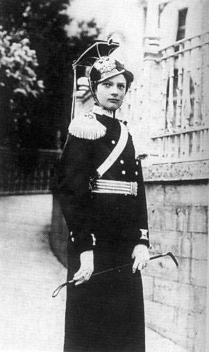 This photograph of Grand Duchess Tatiana Nikolaevna of Russia in the uniform of her regiment (8th Vosnesenski Lancers) in about 1912 is taken from . It was featured on postcards prior to World War I, so I think it is most likely in the public domain.